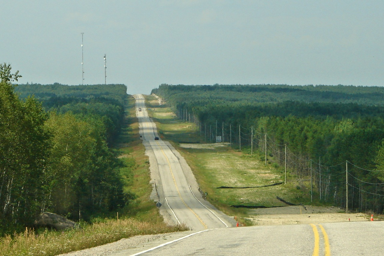 Highway 105 between Ear Falls and Red Lake, Ontario, Canada